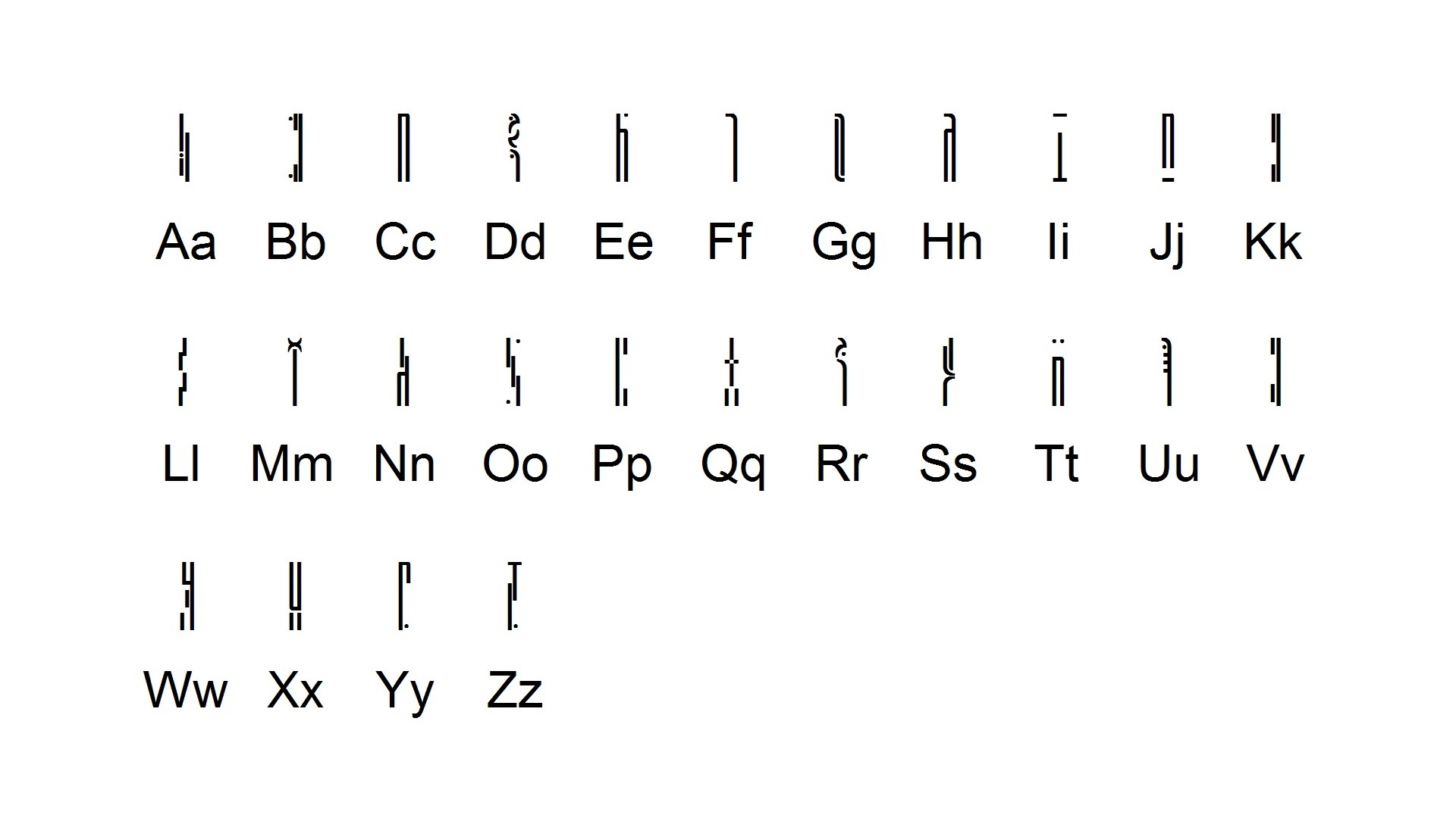 The writing system to the language of the Wraiths, a fictional race in the Stargate franchise. Furthermore, the alphabet has the same amount of letters as in the Latin alphabet for English, i.e. from A to Z.